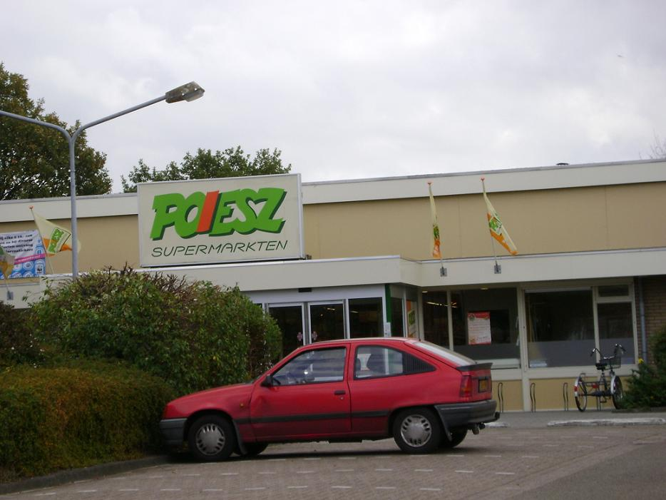 Poiesz-filiaal in oude huisstijl, Ureterp, 2008.